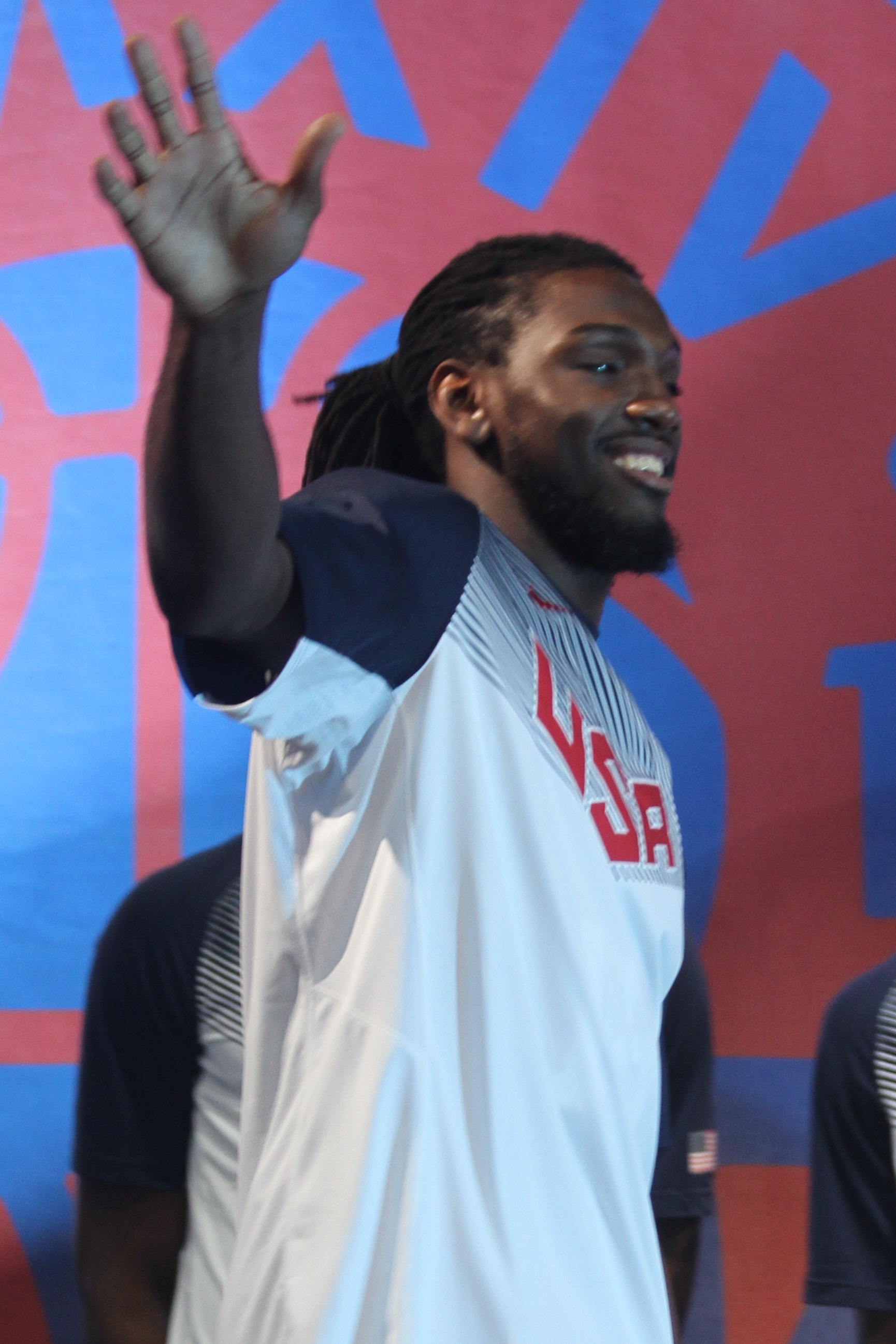 Kenneth Faried at 2014 World Basketball Festival at 63rd Street Beach in Chicago